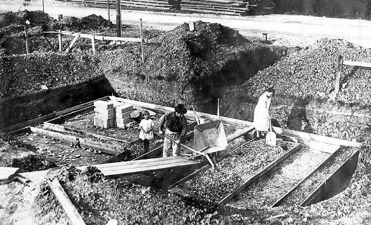 Olovslunds småstugeområde, grundplatta till husbygge iordningställs, Bromma, Stockholm.